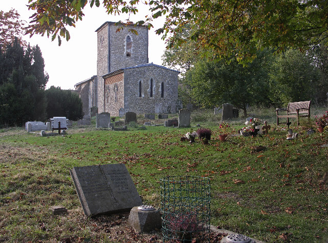 St Mary’s Church, Radnage. The church dates to the late 12th or early 13th century and is thought to have been built by the Knights Templar, a monastic military order. The tower is original.